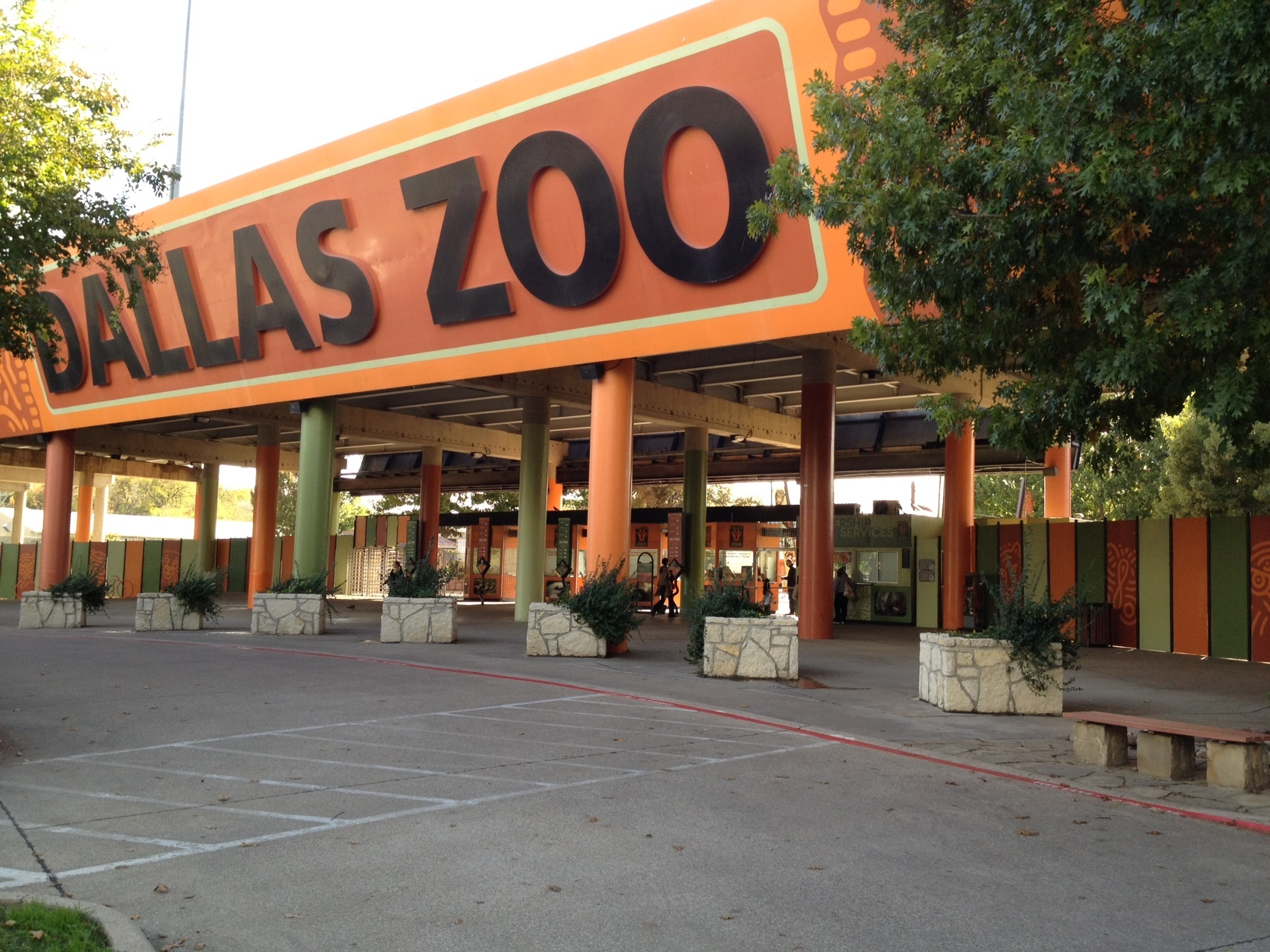 DallasZooEntrance